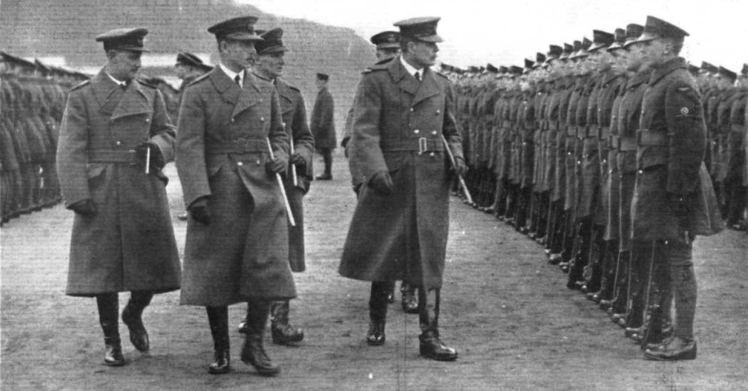 Marshal of the Royal Air Force Sir Hugh Trenchard, Chief of the Air Staff, inspecting apprentices at RAF Halton on 11 January 1927. Accompanying Trenchard are: (left) Group Captain W G S Mitchell (Assistant commandant at Halton), Squadron Leader C G Burge (Personal Assistant to Trenchard) and Wing Commander B E Sutton (Officer Commanding No. 1 Apprentices Wing, Halton).